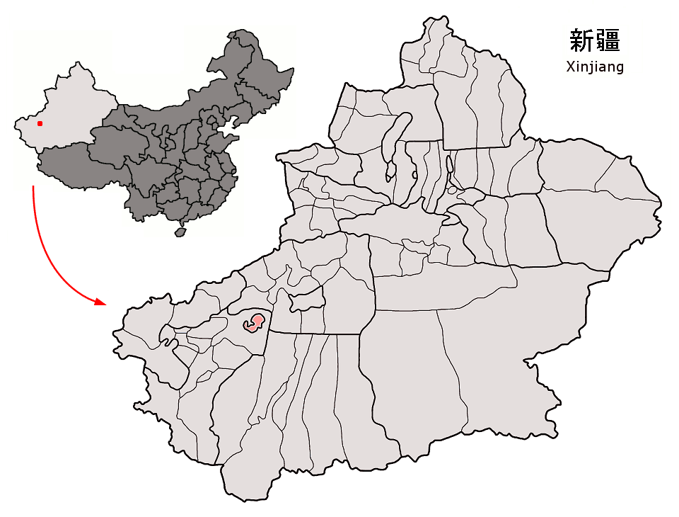 Location of Tumushuke (pink) within Xinjiang autonomous region of China Map drawn in september 2007 using various sources, mainly : Xinjiang Uygur autonomous region administrative regions GIS data: 1:1M, County level, 1990 Xinjiang Counties map from